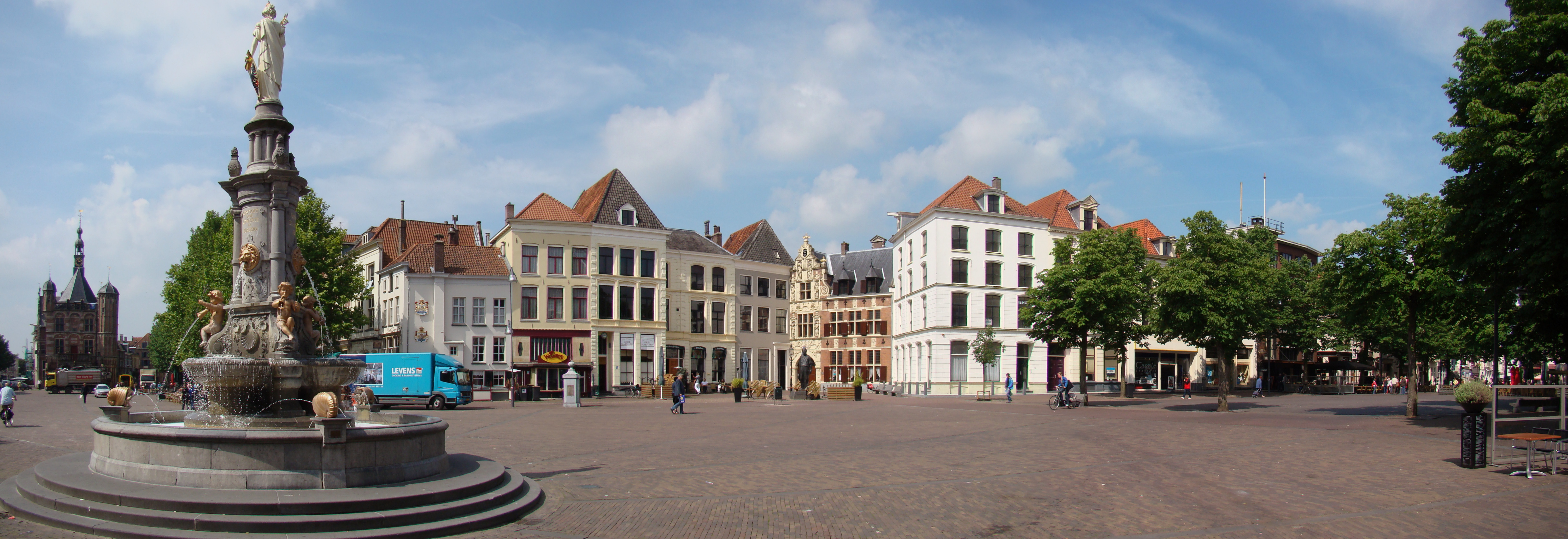 Panoramic view on the Brink at Deventer (Netherlands)